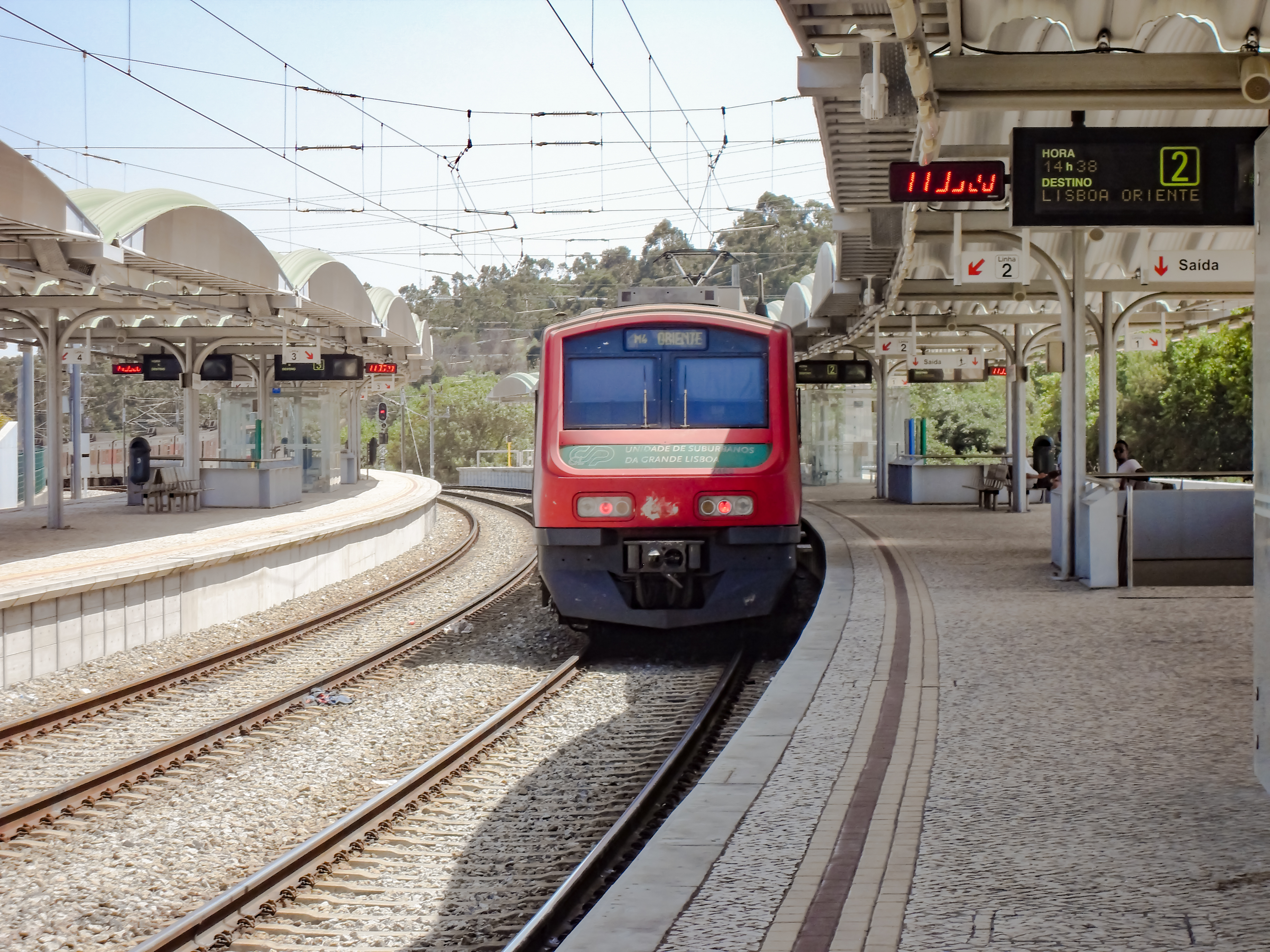 Train (type 2300/2400) leaving towards Lisbon Oriente at Mira Sintra-Meleças train station